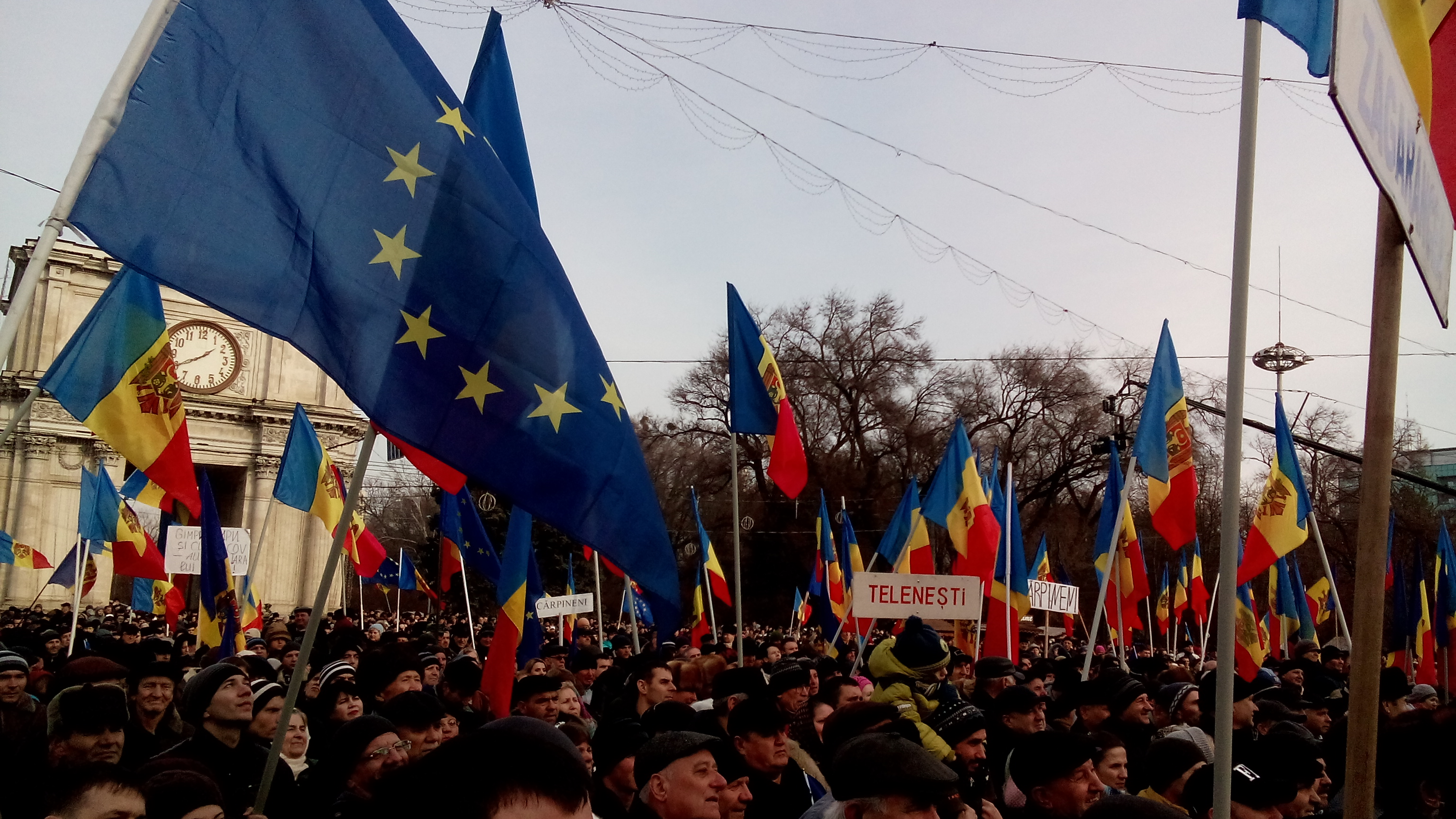 Protest organized by Dignity and Truth Platform Party, Chișinău, January 16, 2016